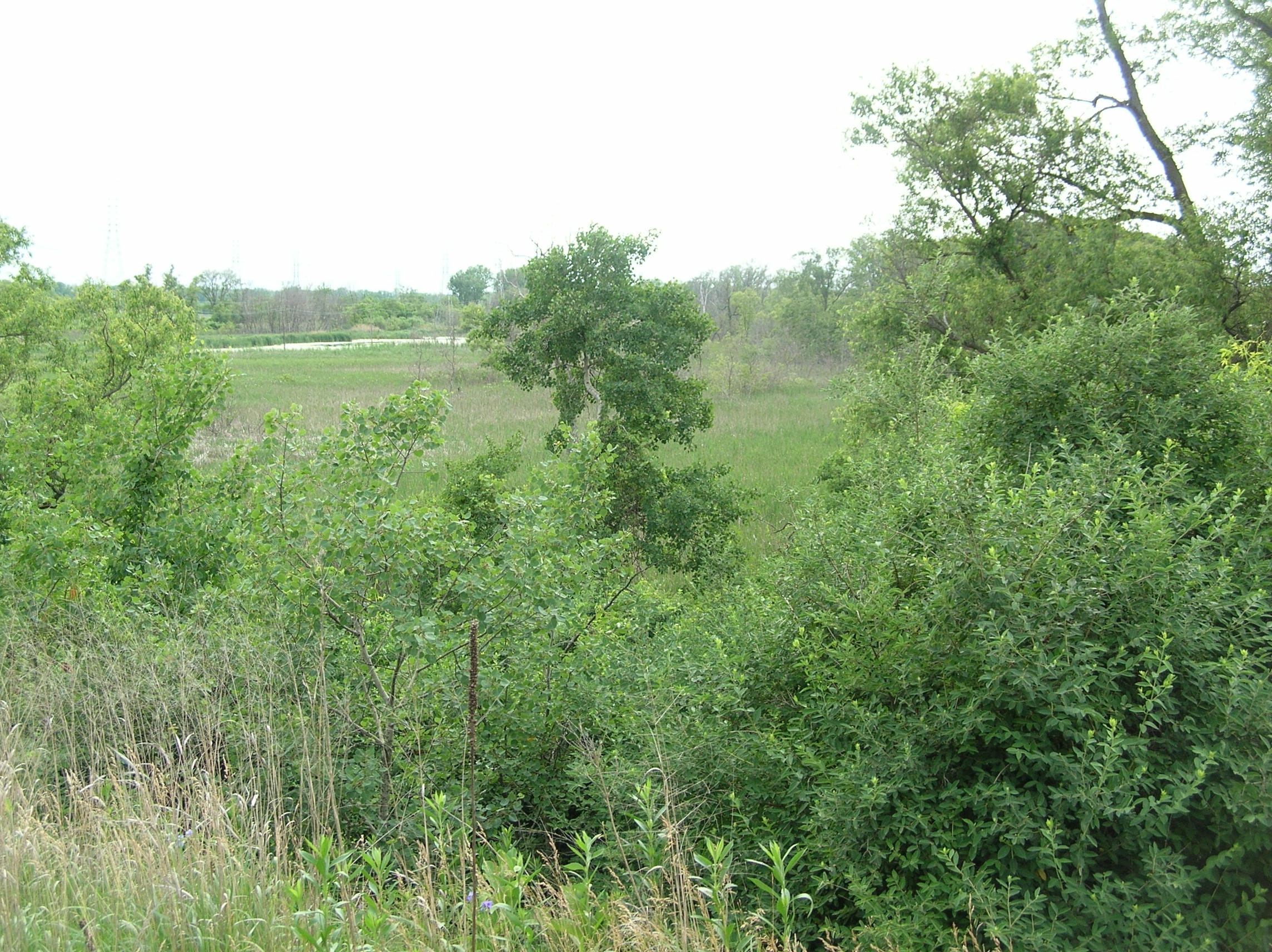 Open wetlands in the southeast corner of the Aetna neighborhood of Gary, north of 15th Ave., as seen looking southwest from the I-90 overpass on Lake Street. Part of the floodplain of the Little Calumet River.